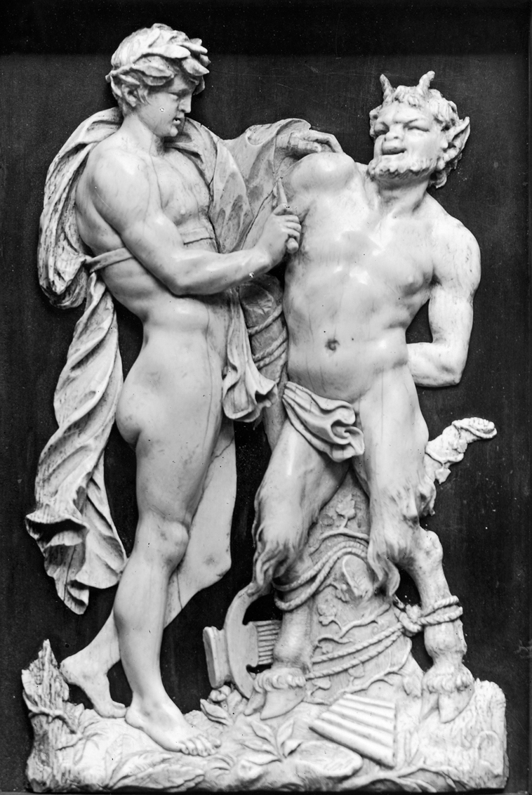 The satyr Marsyas foolishly challenged the Greek god Apollo to a musical competition. If he lost, he would be flayed alive. The jury of gods judged Apollo the winner, and, here, the flaying of Marsyas, bound to a tree stump, has begun. The scene is carved from a single piece of ivory, which has been reduced to paper thinness in places in order to create depth. Van Opstal worked in marble as well as ivory. His delight in dramatic subjects involving muscular strain and tension owed much to his contemporary, the greatest Flemish painter Peter Paul Rubens. This relief can be compared to Van Opstal's style of around 1640 before he moved to Paris and became an important figure at the French court as a sculptor to King Louis XIV.